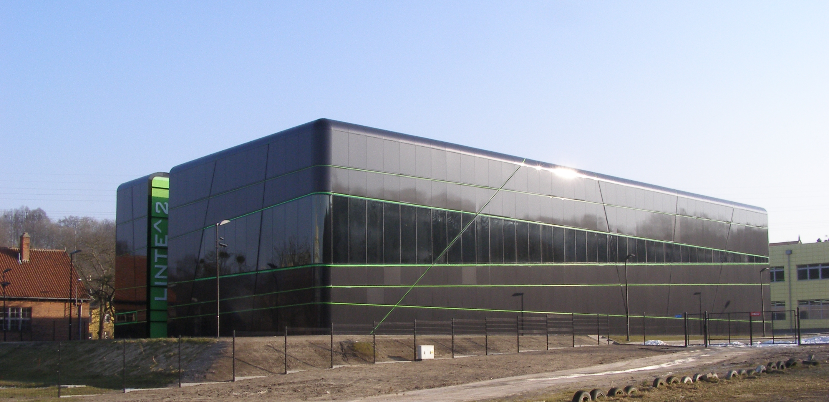 Gdańsk - Gdańsk University of Technology - Laboratory of the Innovative Power Technologies and Integration of Renewable Energy Sources (LINTE^2) of the Faculty of Electrical and Control Engineering